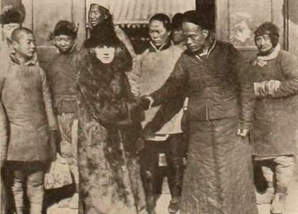 Still of Marie Walcamp meeting Chinese officials during the production of the American film serial The Dragon's Net (1920), portions of which were filmed in Hawaii and in the Far East. Page 3504 of the April 17, 1920 Motion Picture News.